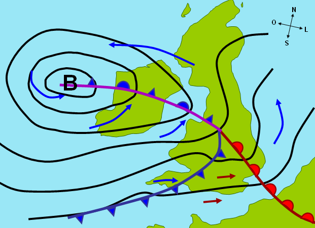 Derivated work from Image:Uk-cyclone-2.png (Translated captions to Portuguese).